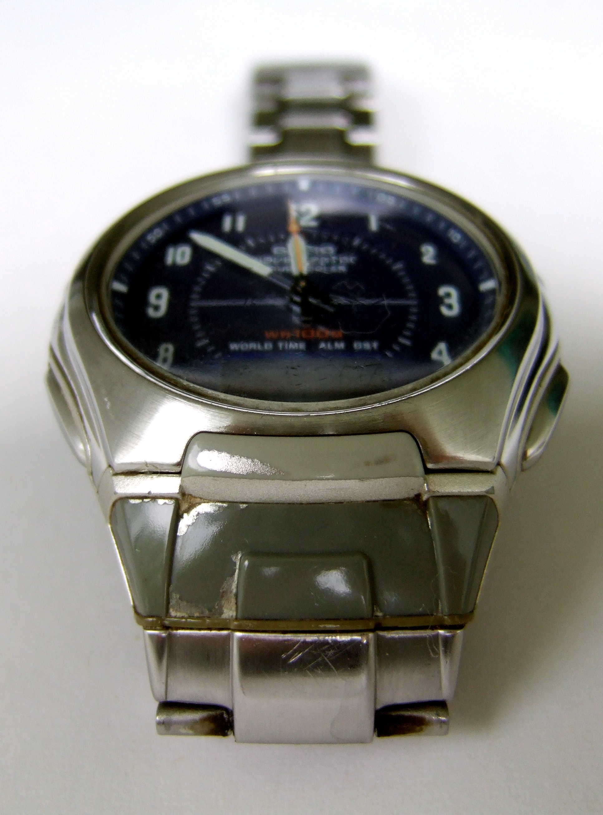 State of silver colour abrasion from the plastic lug of a stainless steel bracelet in the third year of normal usage (model: CASIO WaveCeptor WVA 430DE-2A2VER, price: € 159,-)